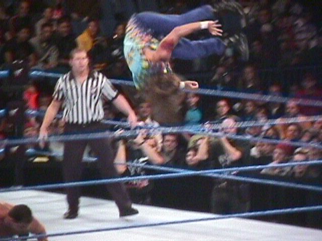 WWF (WWE) Smackdown Stevie Richards off the ropes.